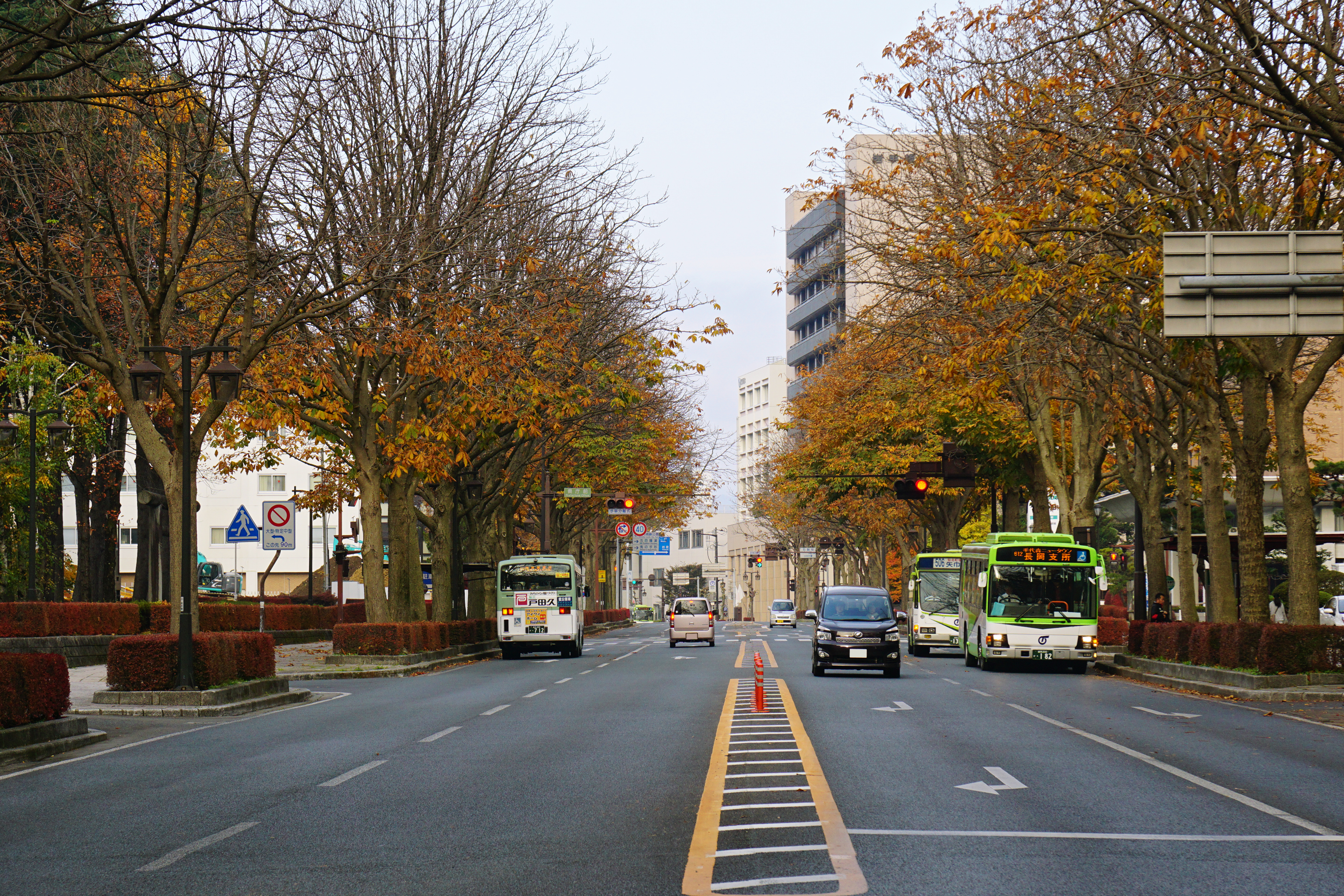 Chuo-dori in Morioka, Iwate prefecture, Japan